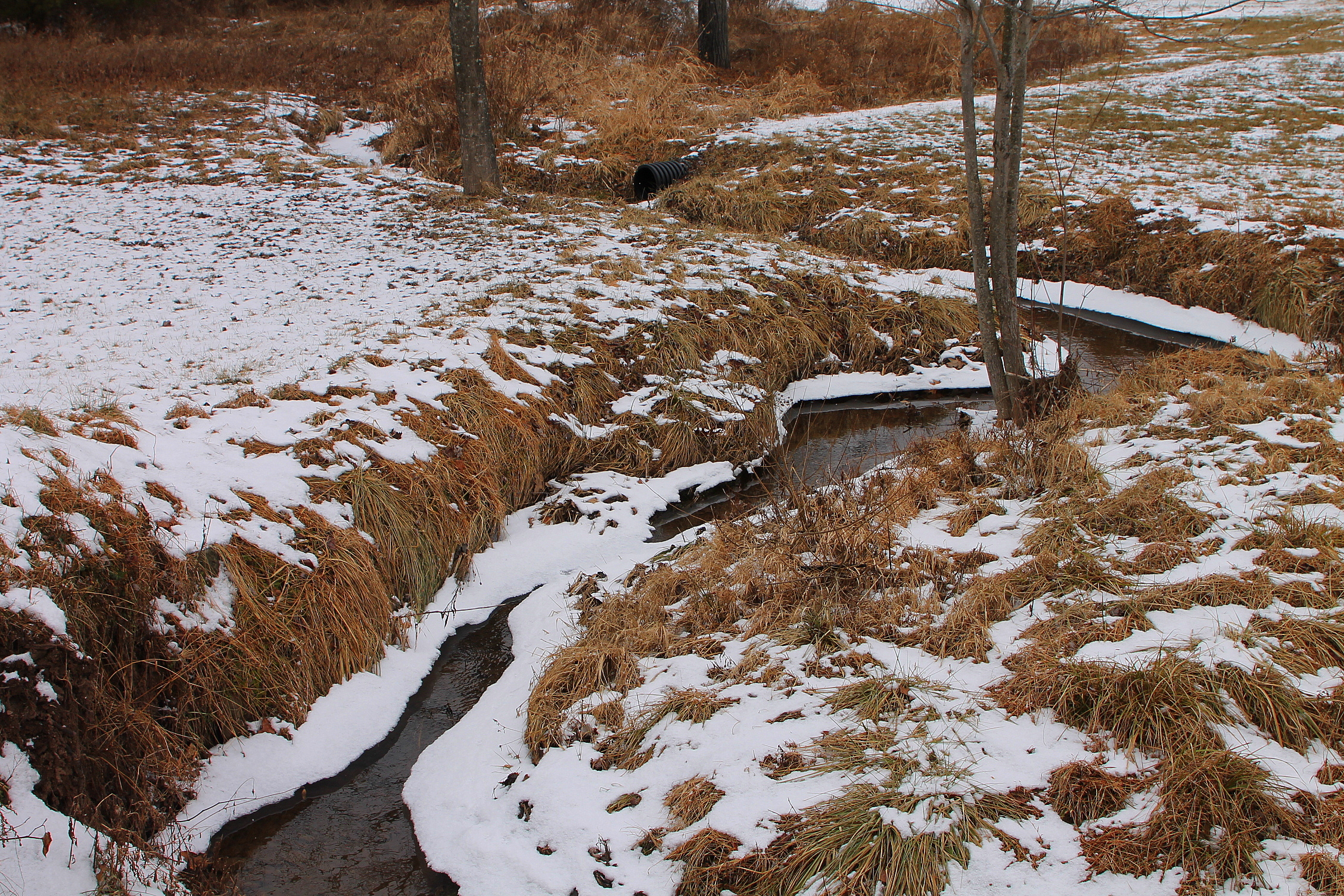 Kline Hollow Run from State Route 4032